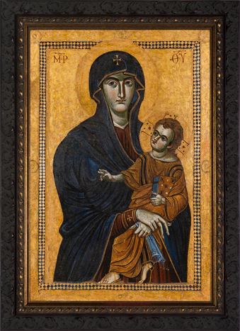 The restored 2018 image of Salus Populi Romani, completed by the work of the Vatican Museum conservators